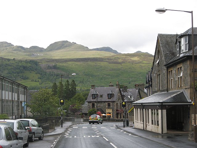 Main Street, Killin Middle of Killin with the traditional Tarmachan backdrop.